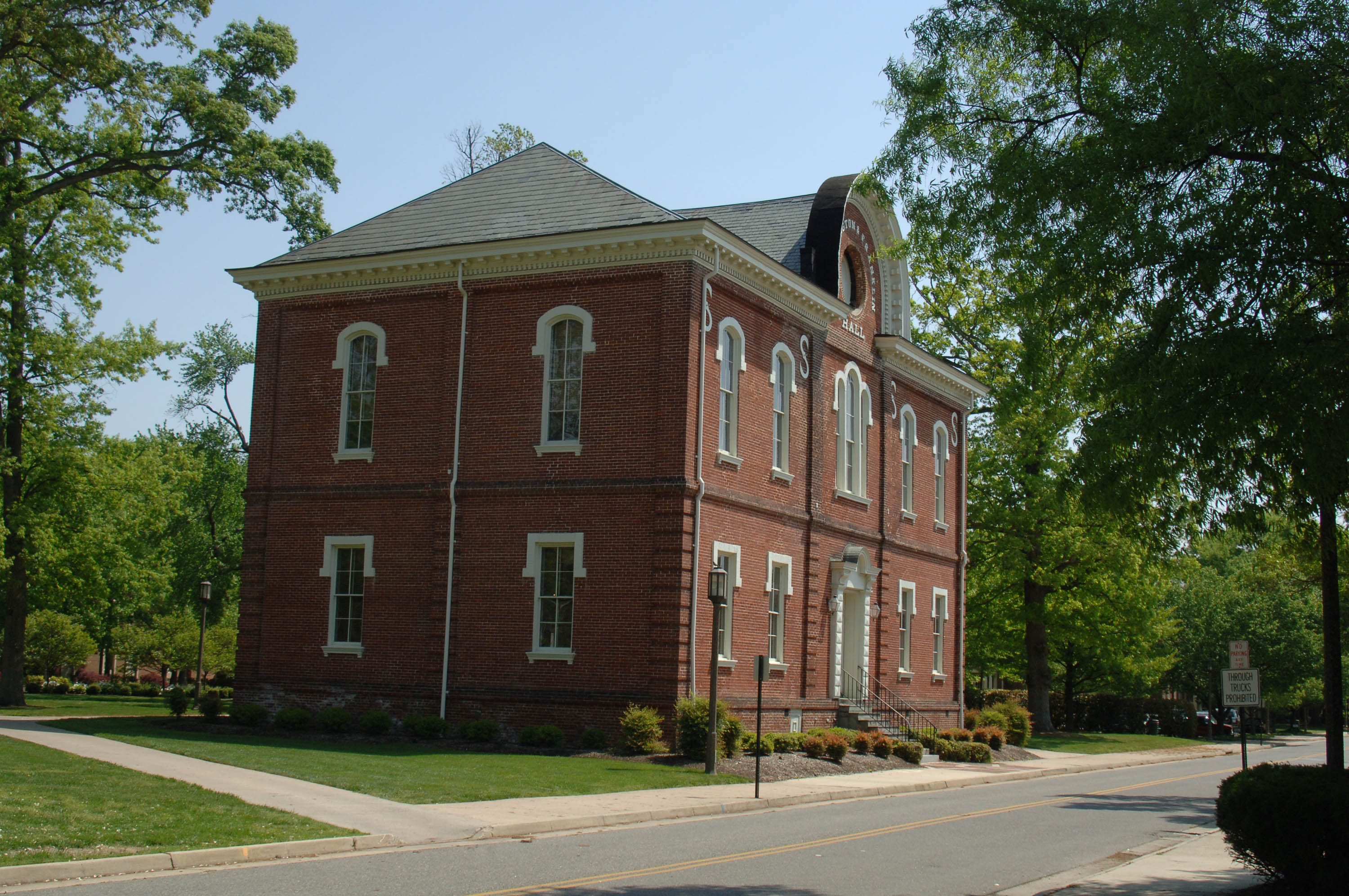 Campus buildings – oldest Methodist college in the continuous operation